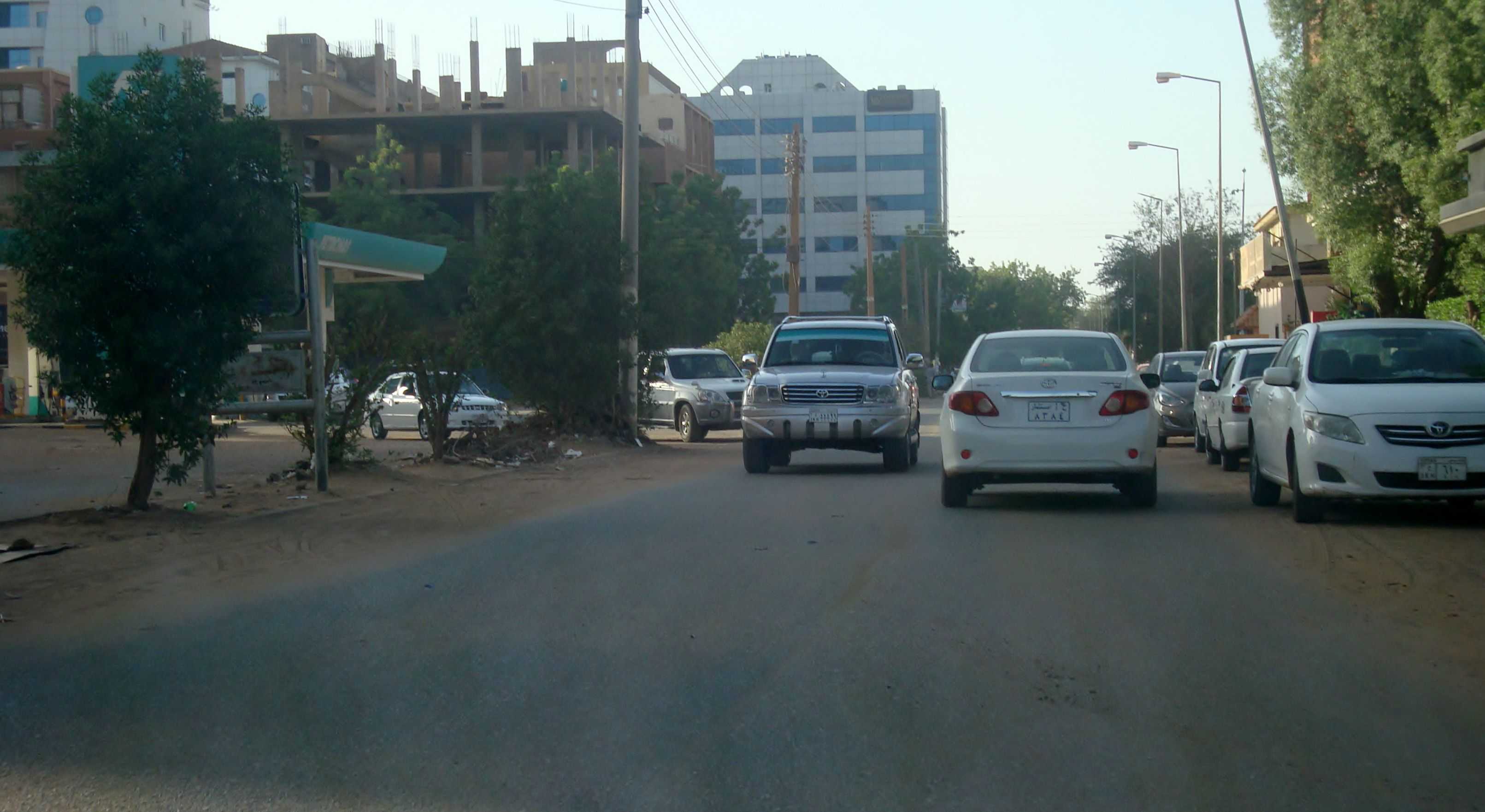 Amart district – Khartoum - Sudan